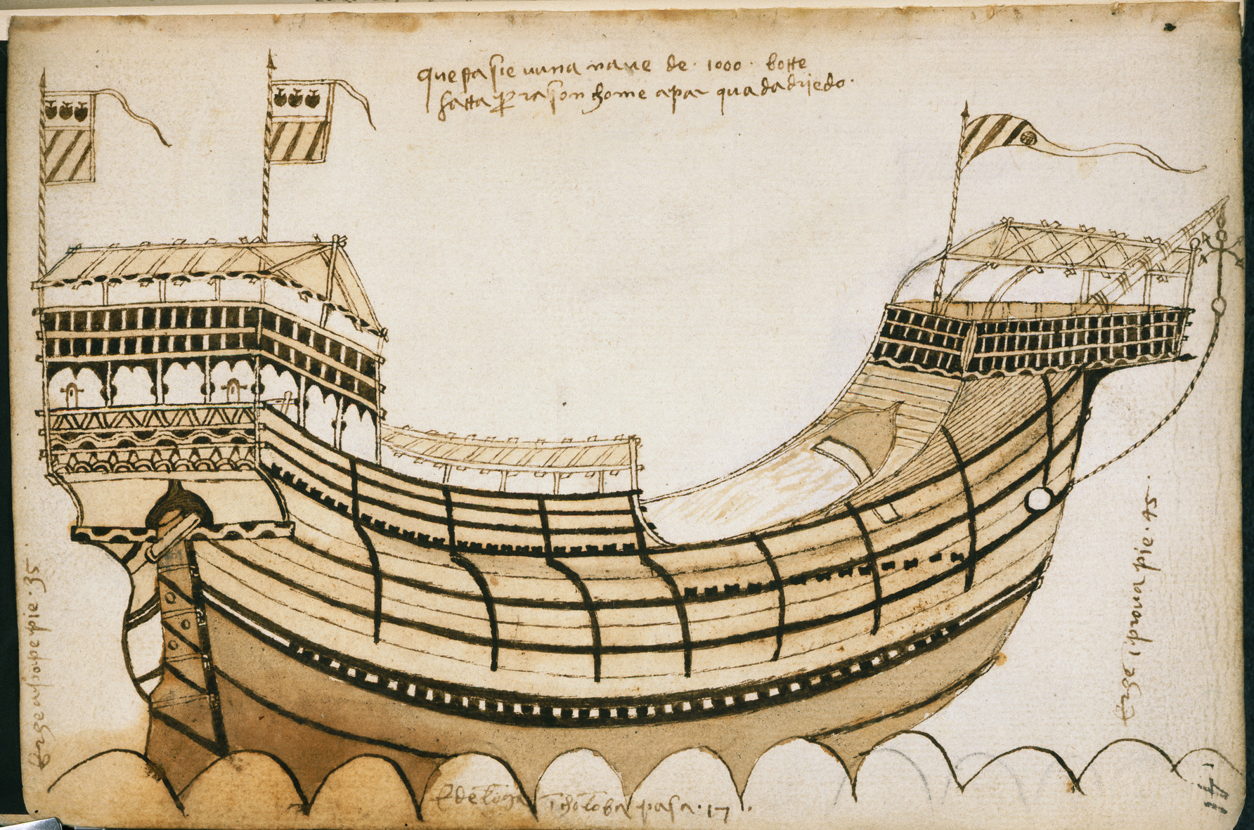 Drawing of a ship [Whole folio] A drawing of ship; from a compilation of extracts concerning naval architecture